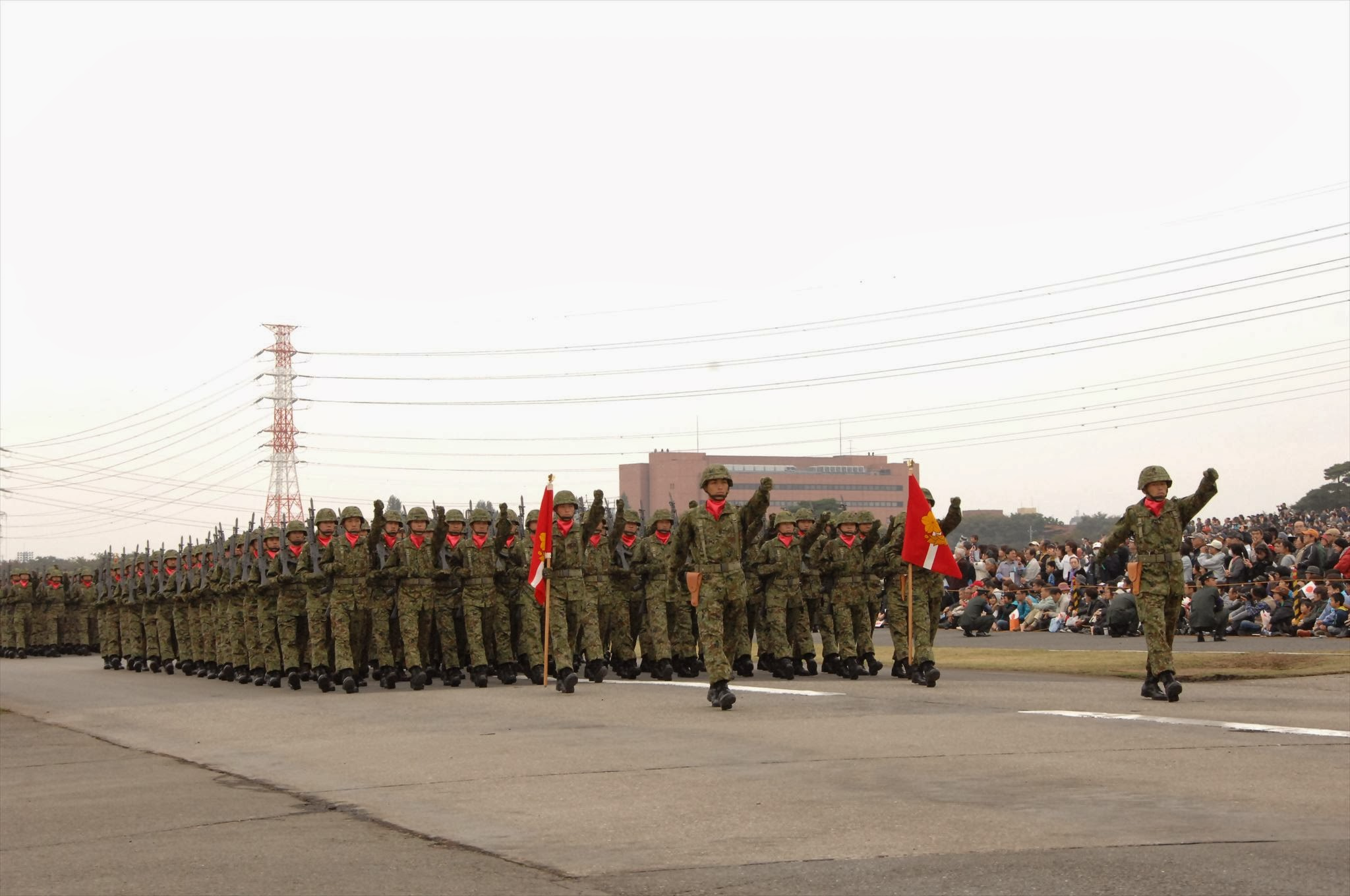 Title 11_06_030_R.JPG Album 自衛隊記念日 観閲式(Parade of Self-Defense Force) 平成22年度自衛隊記念日 観閲式(Parade of Self-Defense Force)